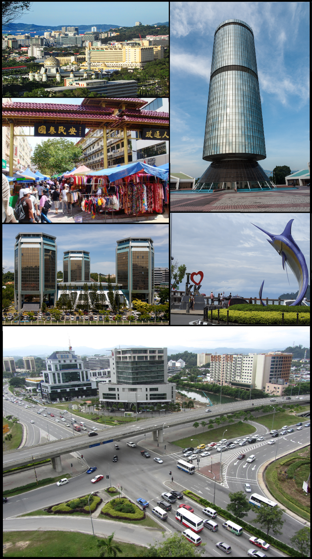 A composite image of icons of Kota Kinabalu from these images.